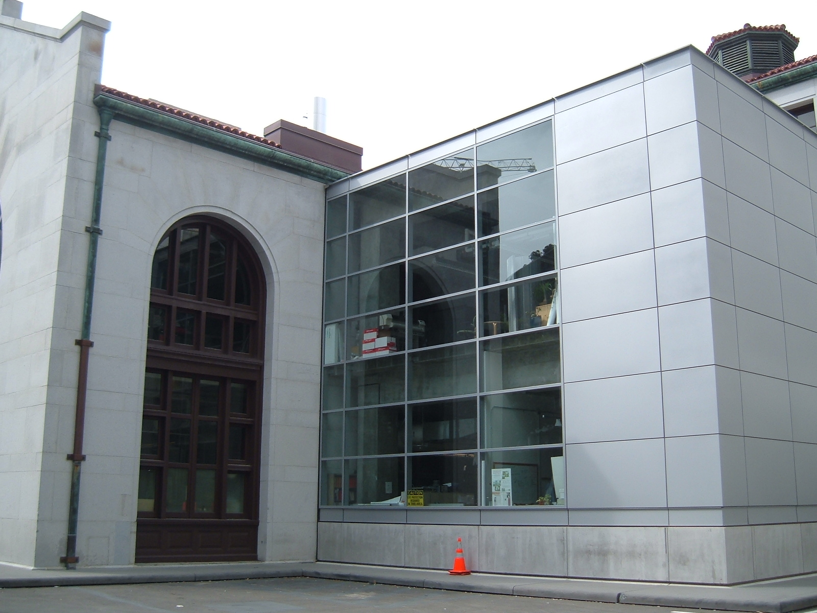 A shot of the Hearst Memorial Mining Building that includes one of its expansions. Note that the material used on the expansion is aluminum rather than the original stone. Photo taken by Kirk Abbott 2005-04-03.